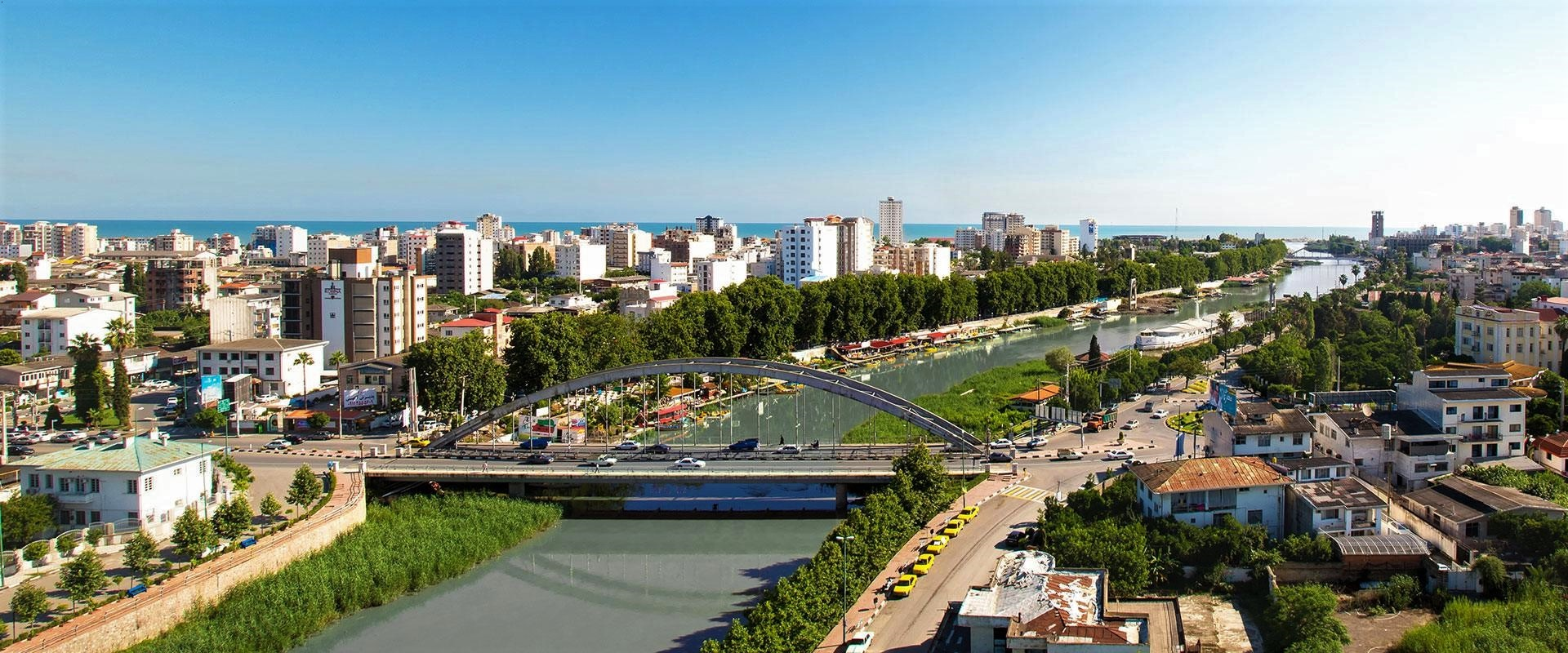 Babolsar Bridge from Tower